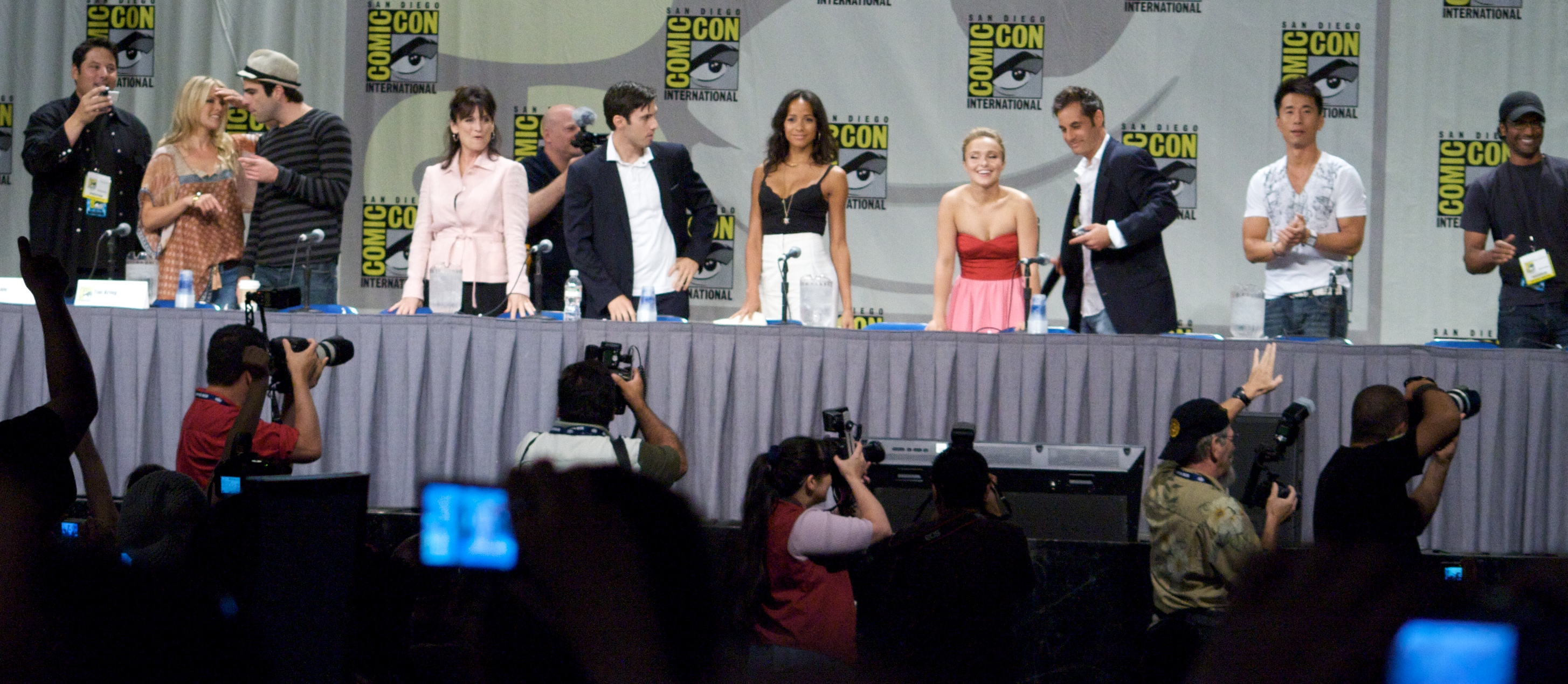 Cast of Heroes at the Comic-Con Heroes panel. From left: Greg Grunberg, Ali Larter, Zachary Quinto, Cristine Rose, Milo Ventimiglia, Dania Ramirez, Hayden Panettiere, Adrian Pasdar, James Kyson Lee, Sendhil Ramamurthy. Also there, but not shown: Masi Oka (Hiro) and Jack Coleman (Noah)